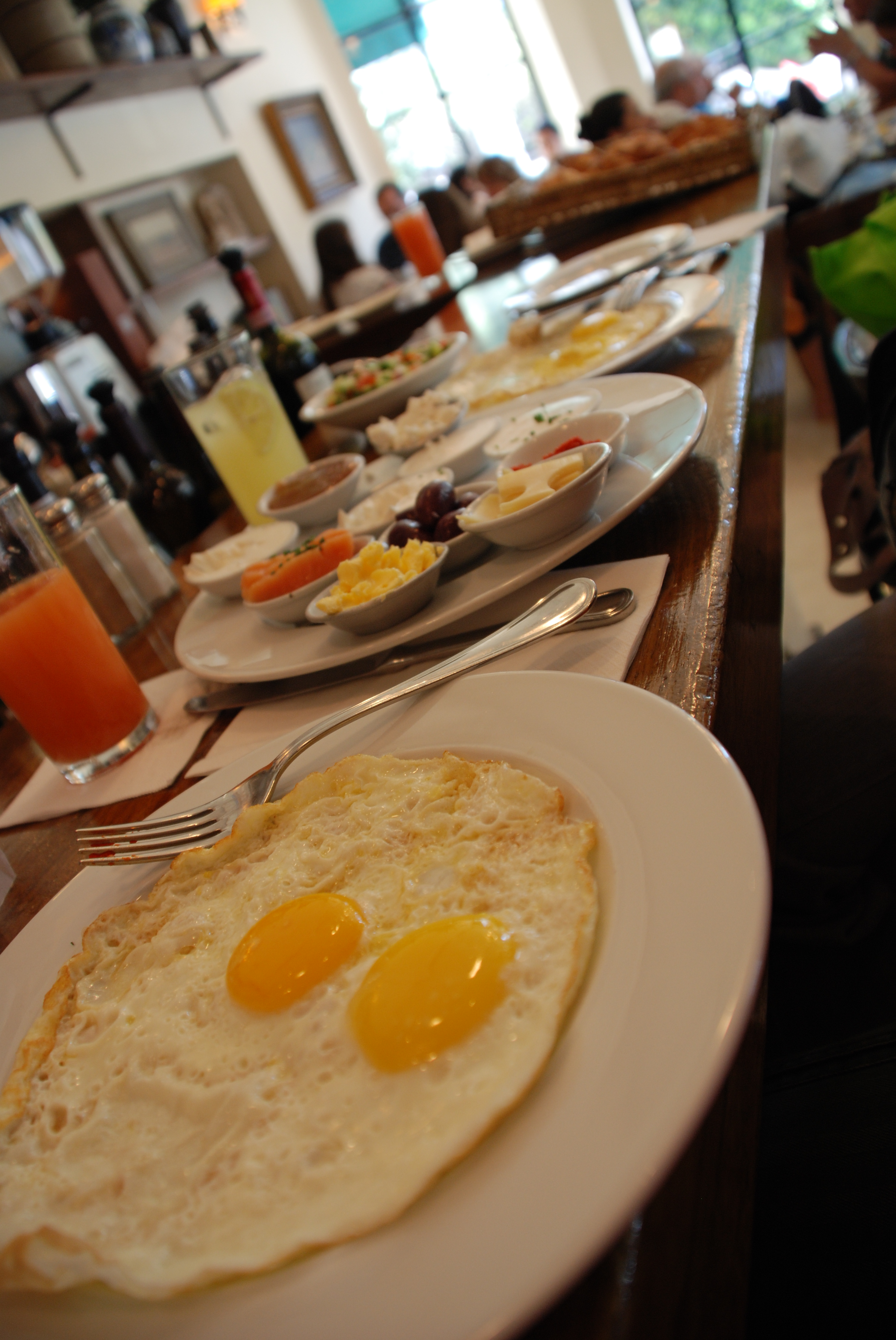 Here is breakfast at Café Noir, Ehad Ha'am st. in Tel Aviv. The eggs are fried with butter, and are large. The atmosphere is great, a European feel is genuinely achieved. I can't find anything bad to say about this place, Me and Moran really enjoyed every minute there. Overall: 9.0/10 About The 7 Breakfasts series: My employers gave me seven free double-breakfast coupons with a certificate of appreciation thingy. Me and Moran, hopeless breakfast fanatics, decided to document each of the morning glories.